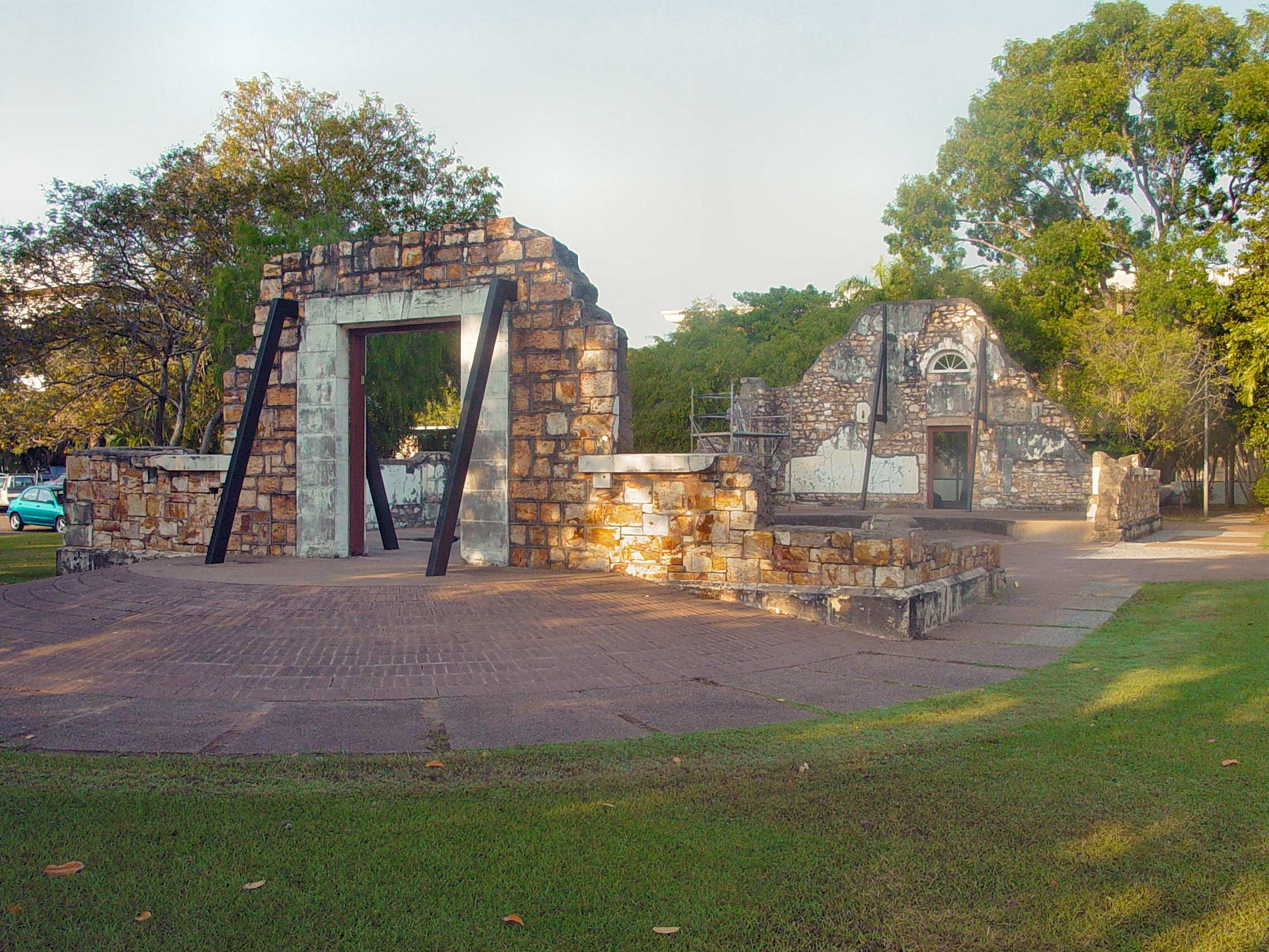 Darwin palmerstone town hall